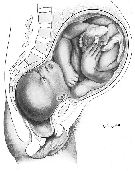 The child as it is passing out through the vagina must pass through the lesser pelvis.